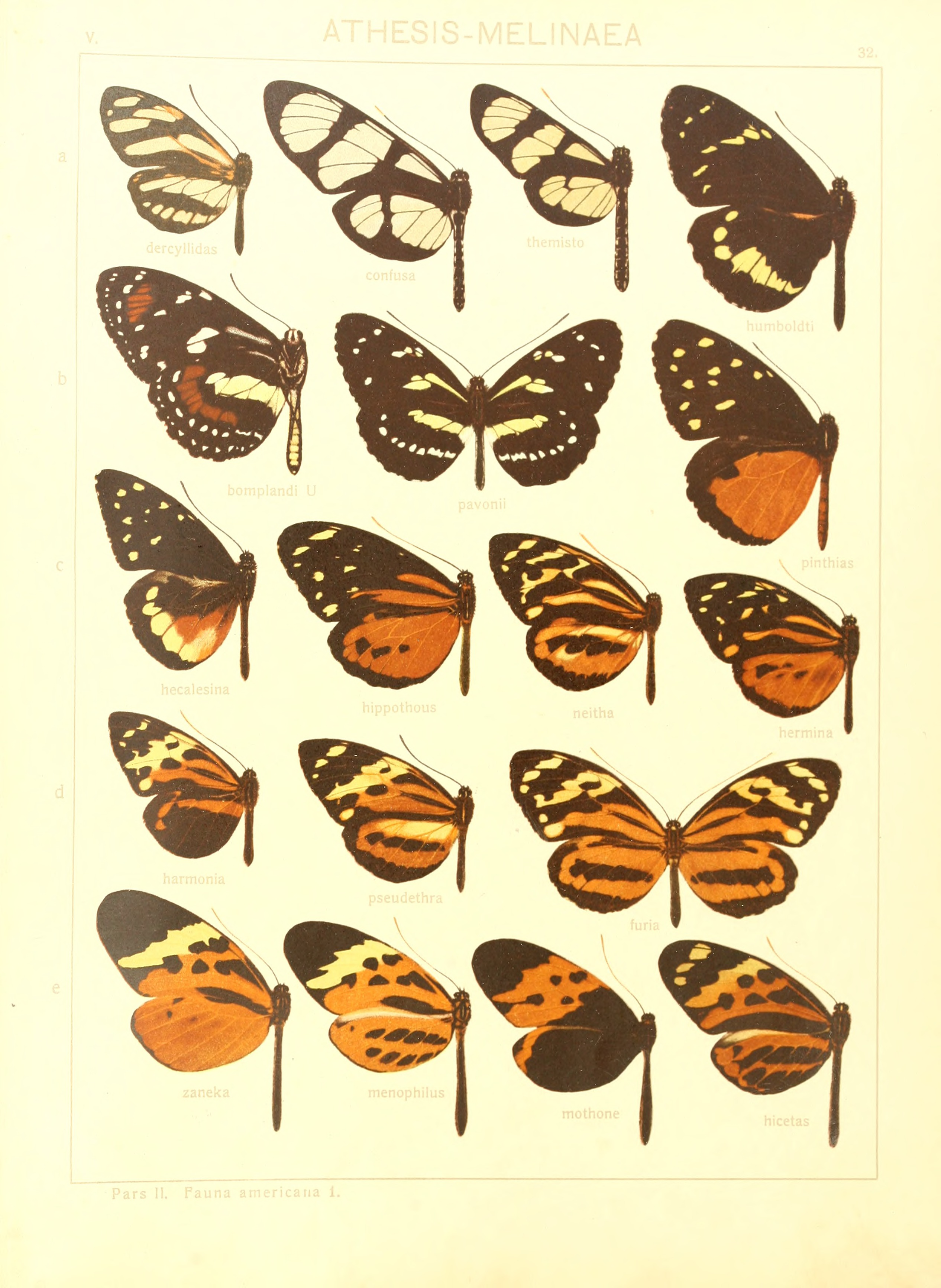 Plate from Seitz, A. ed. ( 1907) Die Großschmetterlinge der Erde, Verlag Alfred Kernen, Stuttgart Band 5: Abt. 1, Die exotischen Großschmetterlinge, Die Großschmetterlinge des amerikanischen Faunengebietes, The Macrolepidoptera of the world : a systematic account of all the known Macrolepidoptera: The Macrolepidoptera of the American faunistic region.Volume 5 part 1 Richard Haensch Danaidae text online read text See The Global Lepidoptera Names Index for valid names Patricia dercyllidas (Hewitson, 1864) Methona confusa Butler, 1873 Methona themisto (Hübner, 1818) Elzunia humboldt (Latreille, [1809]) Elzunia humboldtii bonplandii Guérin, 1841 Elzunia pavonii (Butler, 1873) Tithorea pinthias Godman & Salvin, 1878 synonym for Tithorea tarricina Hewitson, 1858 Tithorea tarricina hecalesina C. & R. Felder, 1865 Tithorea harmonia hippothous Godman & Salvin, [1879] Tithorea harmonia neitha Hopffer, 1874 Tithorea harmonia hermina Haensch, 1903 Tithorea harmonia(Cramer, 1777) Tithorea harmonia pseudethra Butler, 1873 Tithorea harmonia furia Staudinger, 1884 Melinaea menophilus zaneka Butler, 1870 Melinaea marsaeus mothone (Hewitson, 1860) Melinaea menophilus hicetas Godman & Salvin, 1879